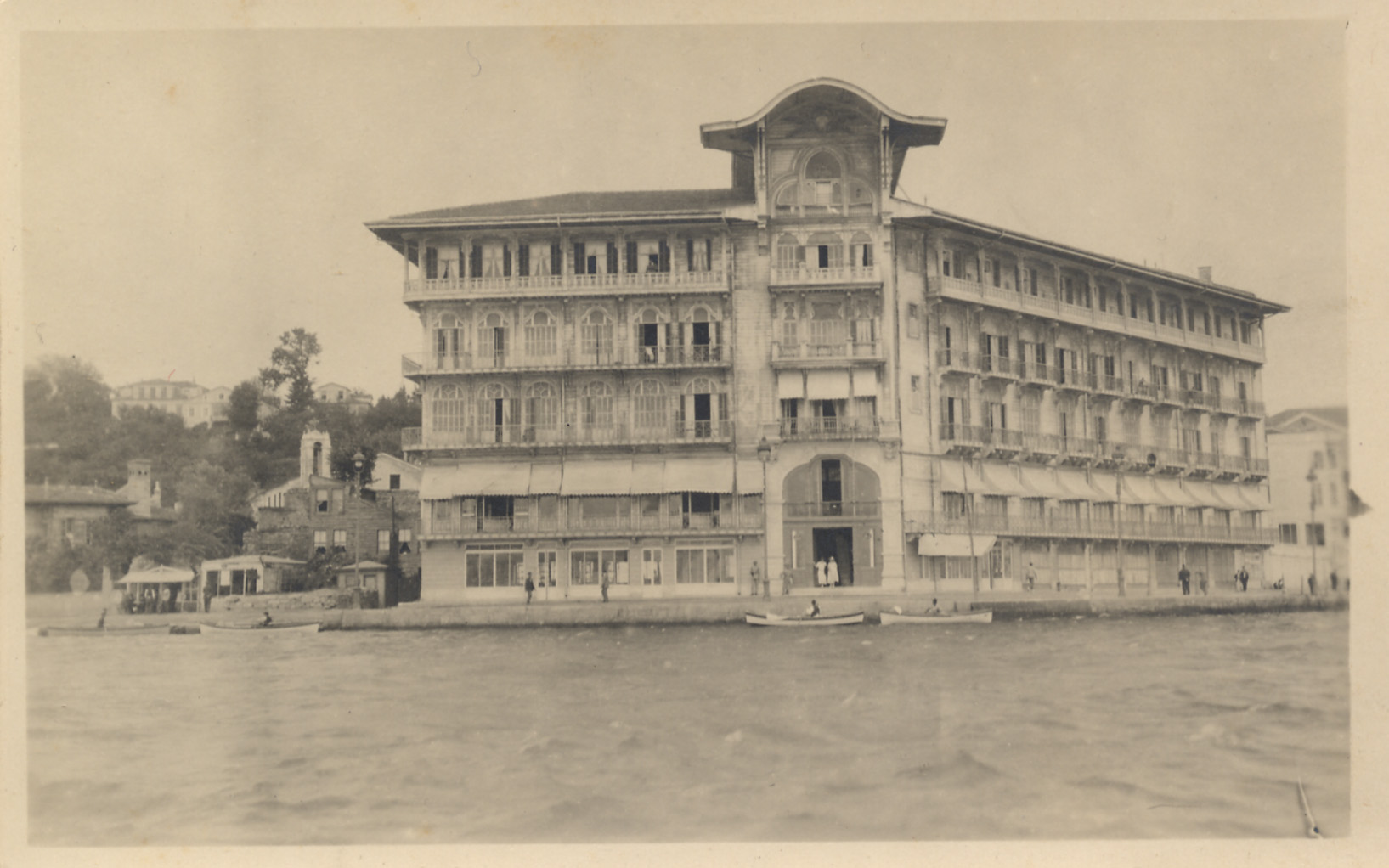 Tokatlıyan Hotel, Tarabya, Istanbul SALT Research, Tahsin İspiroğlu Collection Tokatlıyan Oteli, Tarabya, İstanbul SALT Araştırma, Tahsin İspiroğlu Koleksiyonu